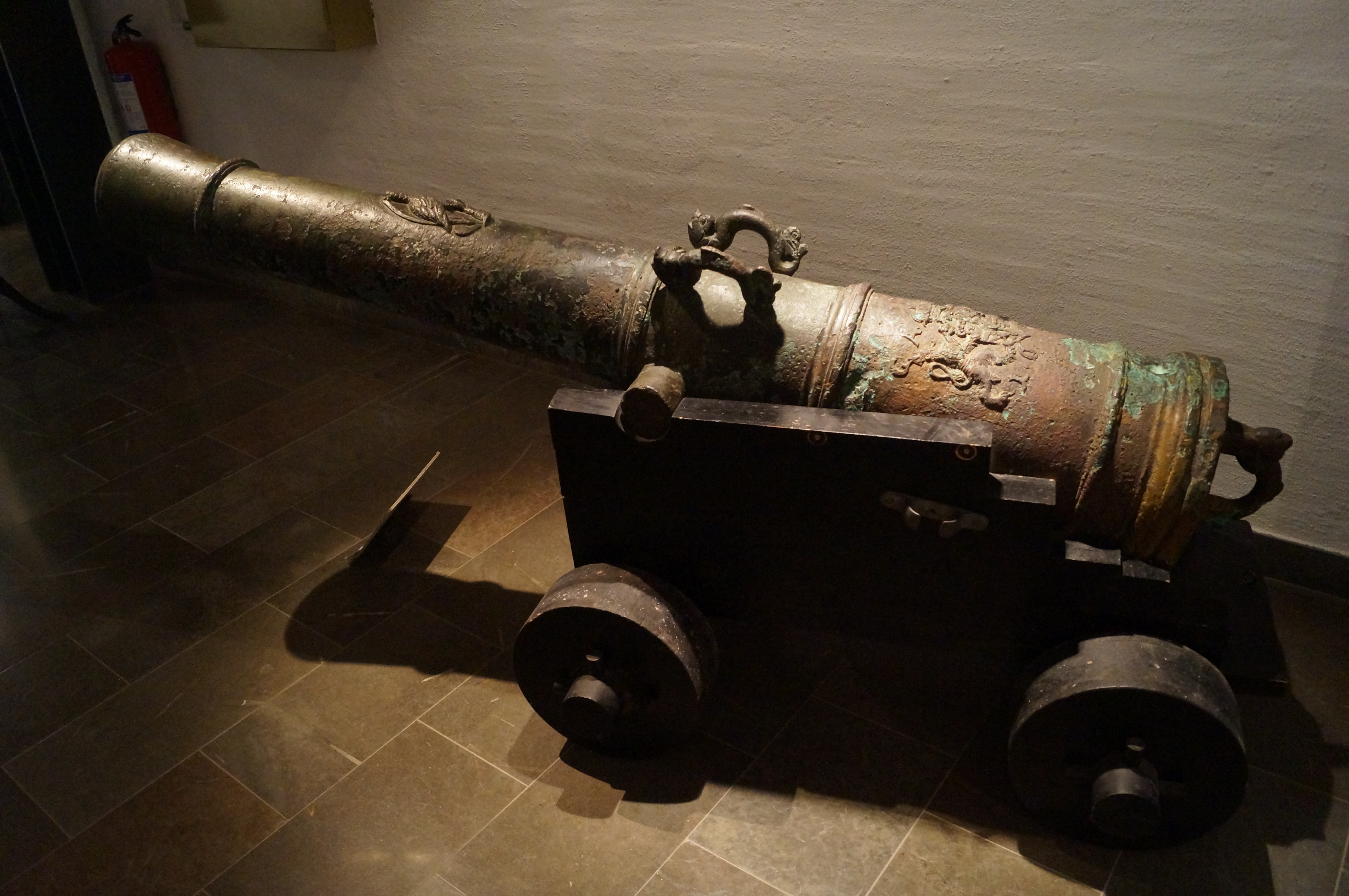 Cannon salvaged from the ship Kronan, exhibited at Kalmar läns Museum.